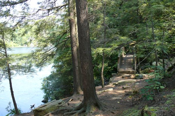 Pelton Pond located in Fahnestock state park Putnam county New York